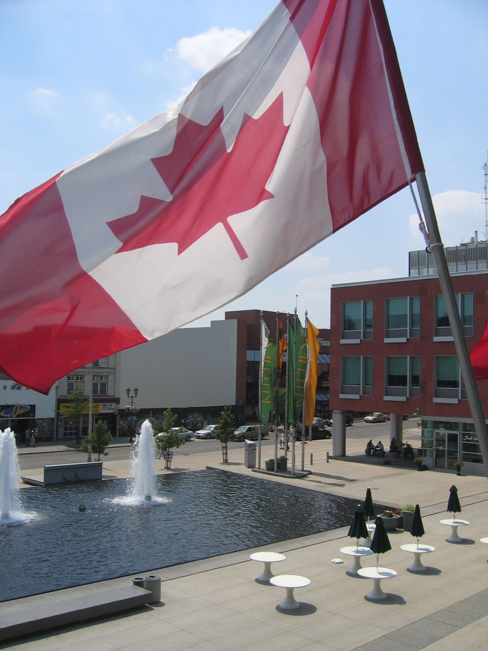 The following is the author's description of the photograph quoted directly from the photograph's Flickr page."Der Platz vor der Kitchener Town Hall "